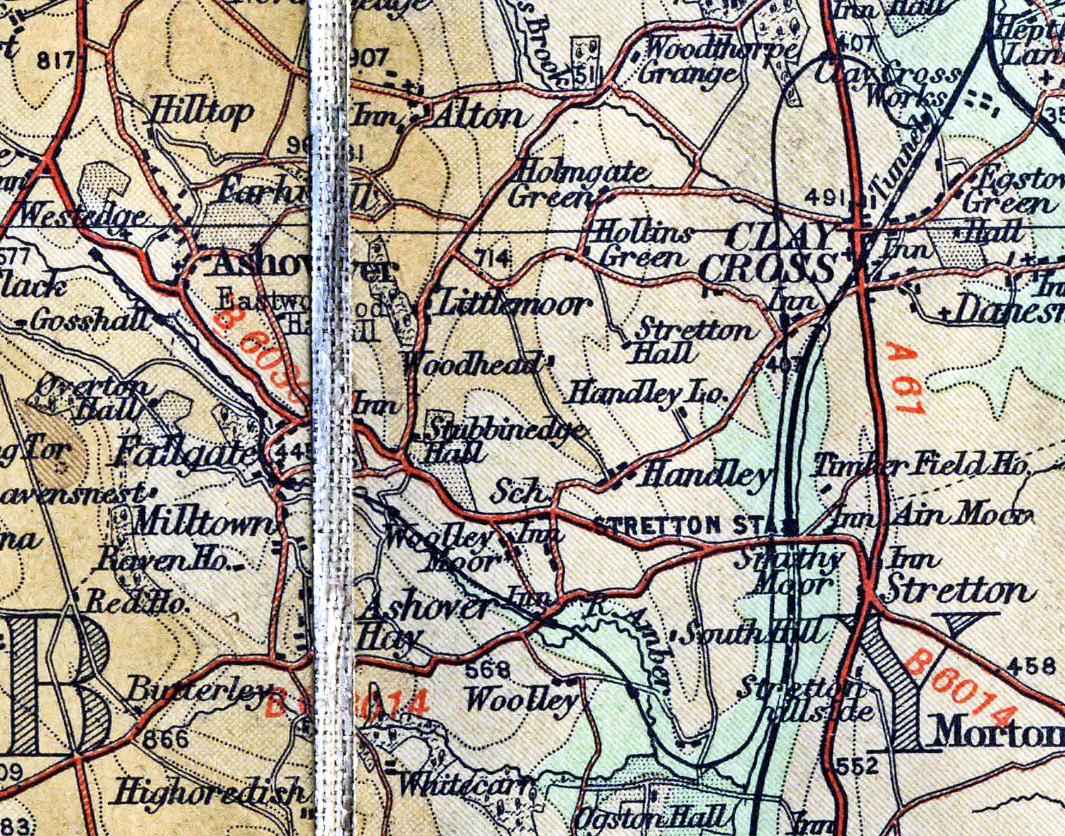 Ashover Light Railway - Map of the line and locality in 1938